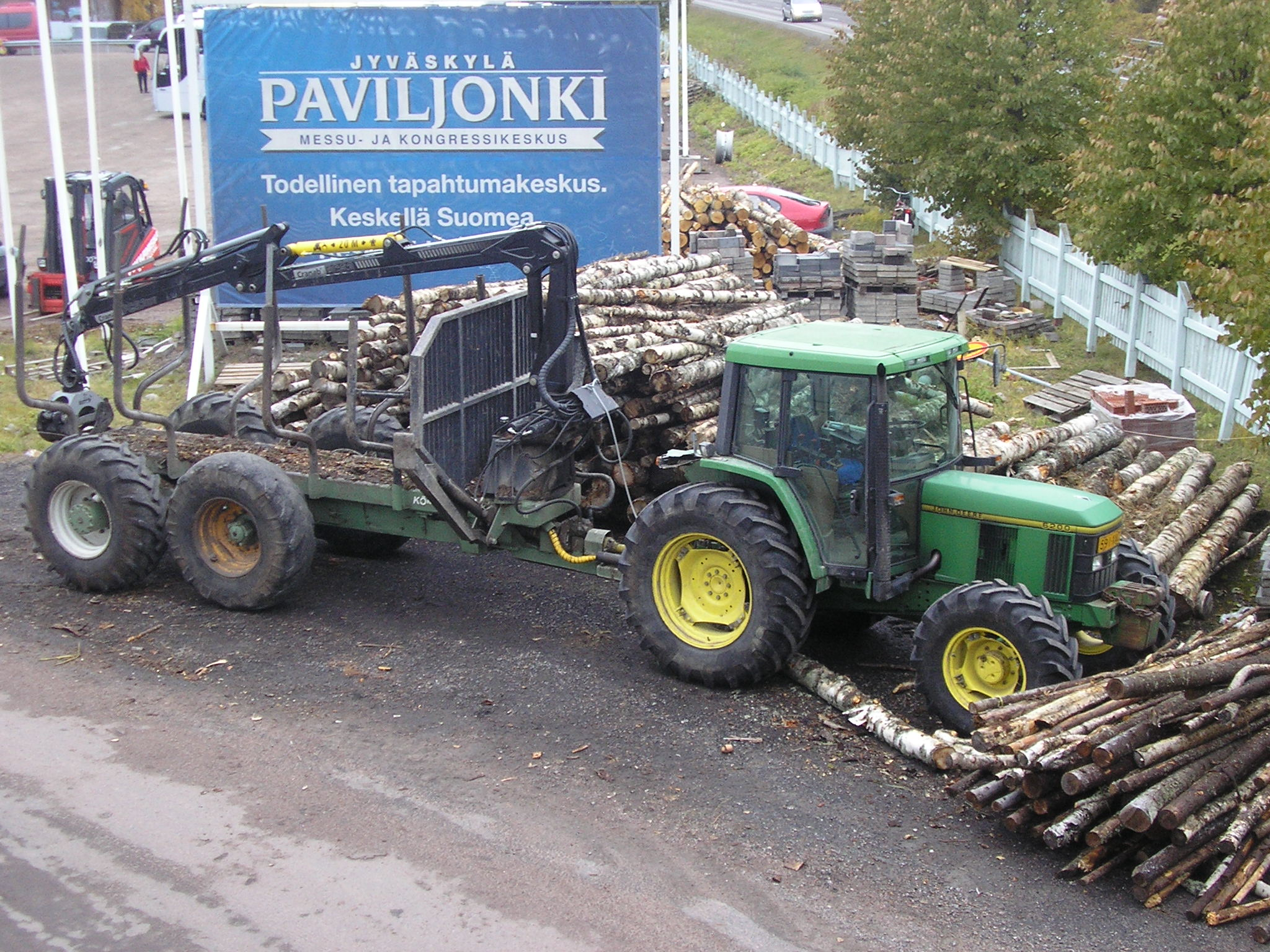 John Deere 6200 tractor with trailer for lumber transport equipped with a Cranab crane